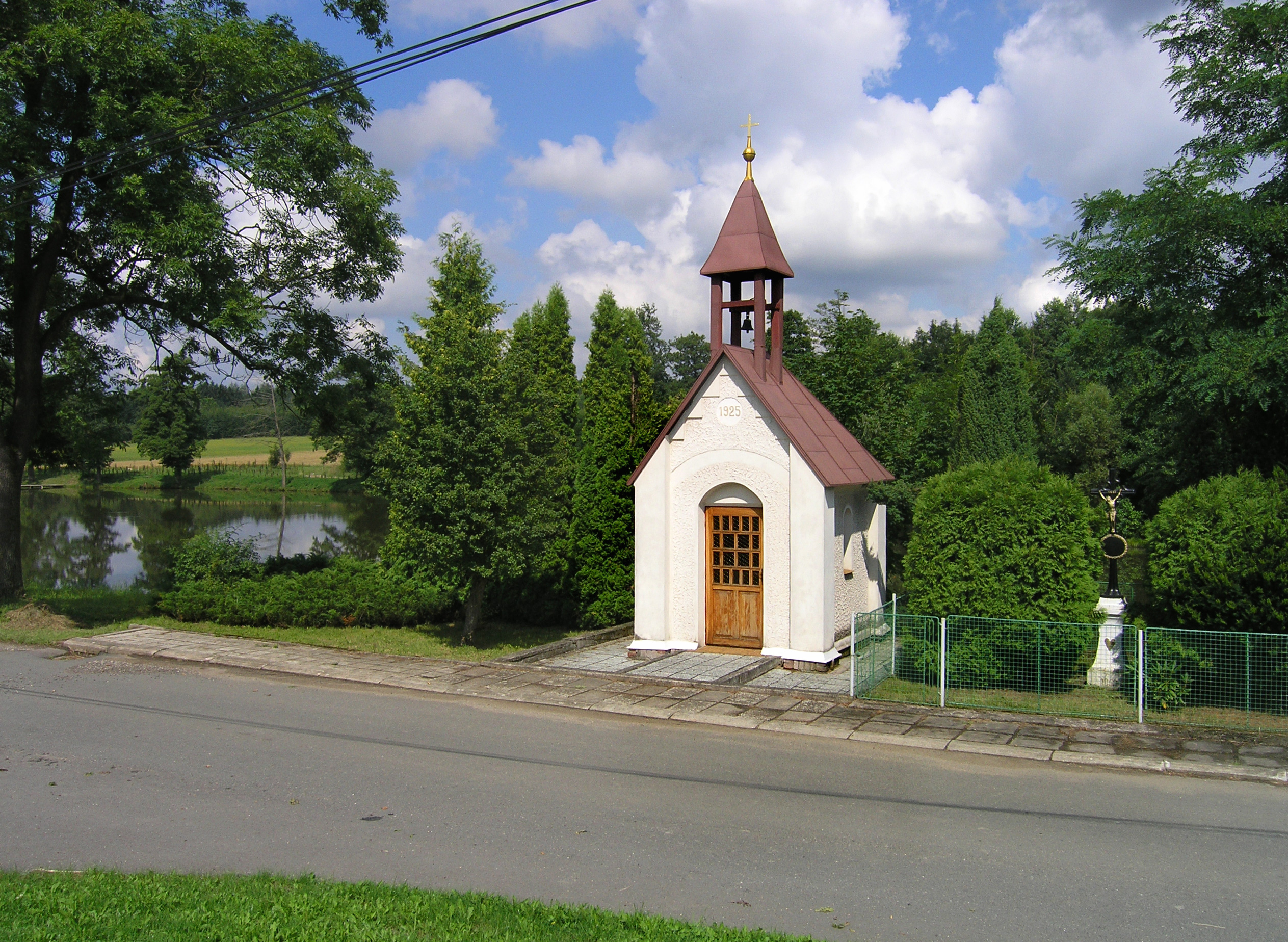 Chapel in Řeplice, part of Bohdaneč, Czech Republic